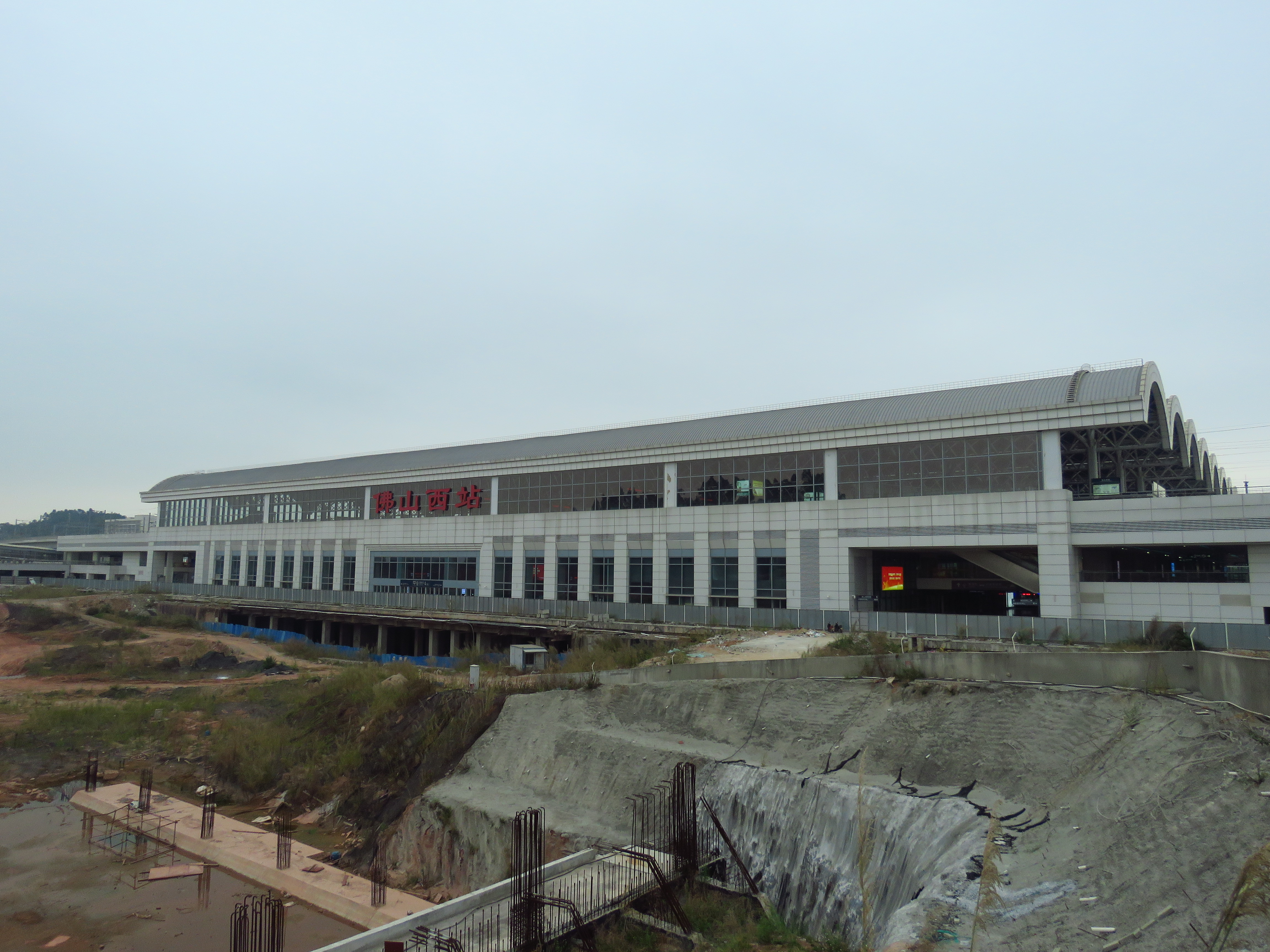 China National Railway Foshanxi Station north facade